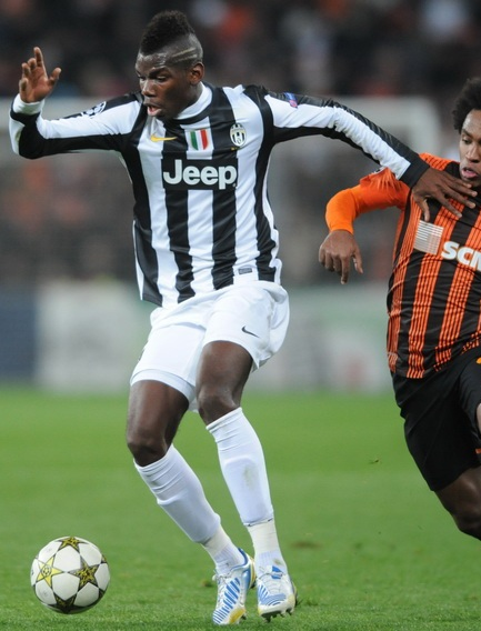 paul pogba ex manchester united